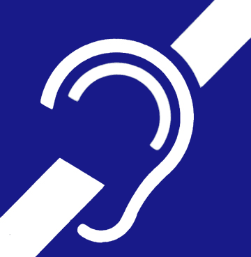 A stylized white ear, with two white bars surrounding it, on a blue background. It is commonly used to symbolize deafness and hard of hearing. Originally uploaded as File:International Symbol for Deafness.jpg